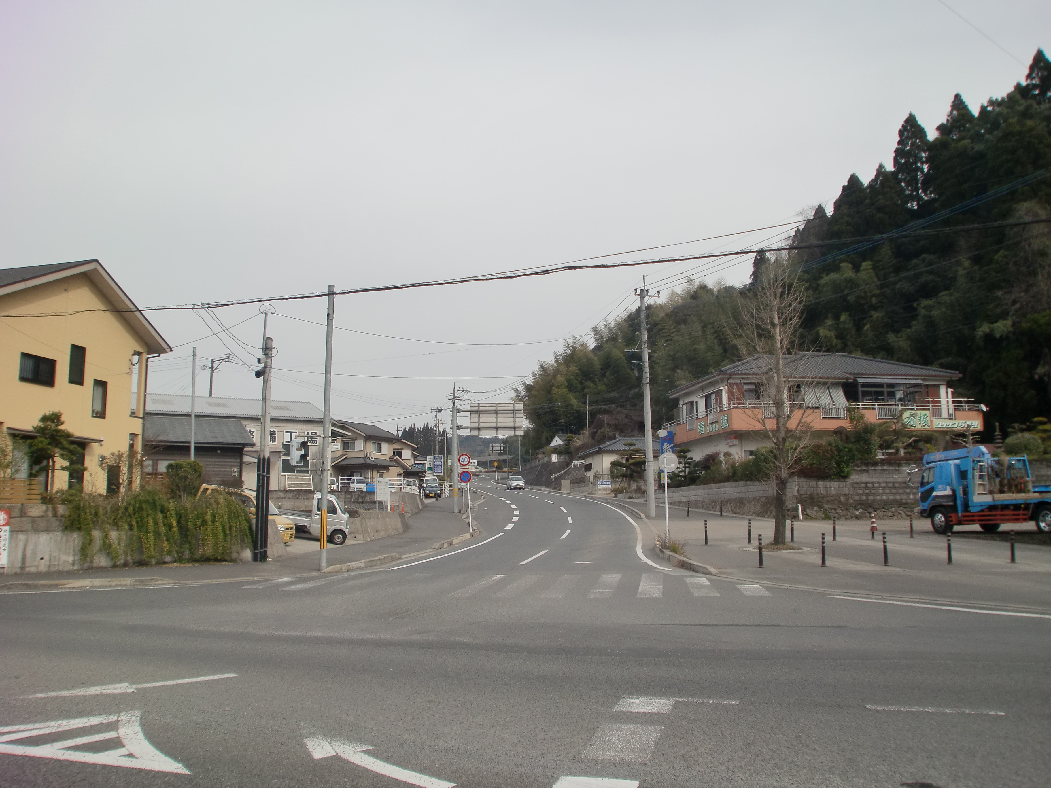 The Kagoshima Prefectural Road Route 211 at its starting point, the Tsukada Intersection in Kagoshima City, view towards Aira